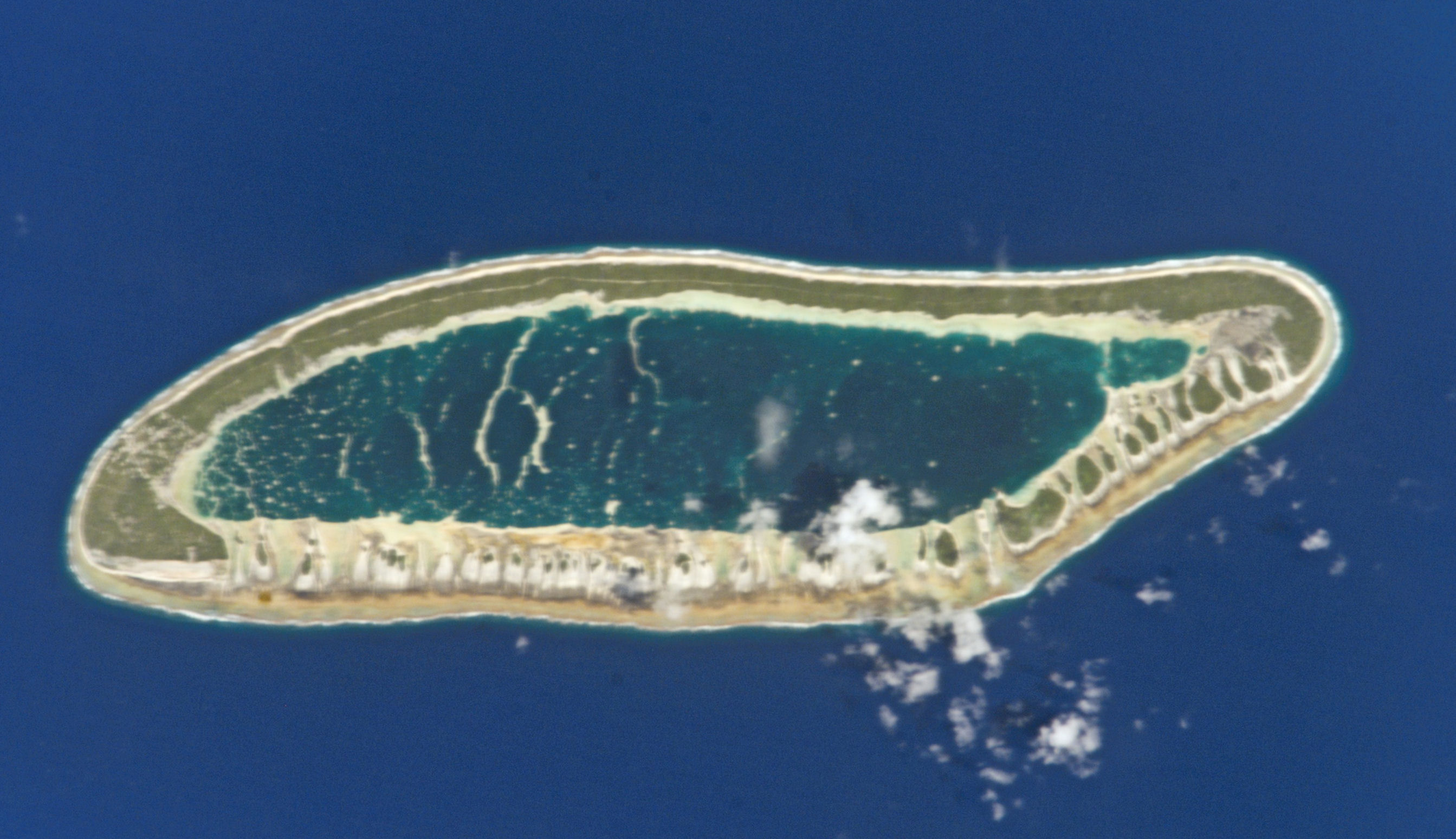 Atoll Tatakoto (Tuamotu Archipelago, French Polynesia), from space.